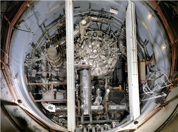 Photo of a molten-salt reactor (MSR) at Oak Ridge National Laboratory before their thorium energy research ended. There is a larger copy of this file already at Commons File:MoltenSaltReactor.jpg We hope (talk) 21:39, 14 October 2012 (UTC)